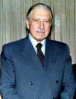 Augusto Pinochet